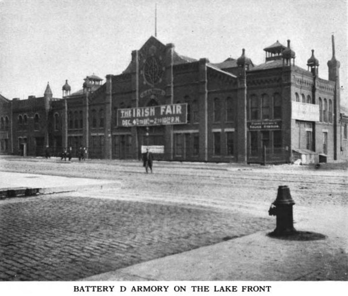 Image of Battery D Armory at Michigan Avenue and Monroe Street, Chicago IL, built c. 1877, demolished 1896